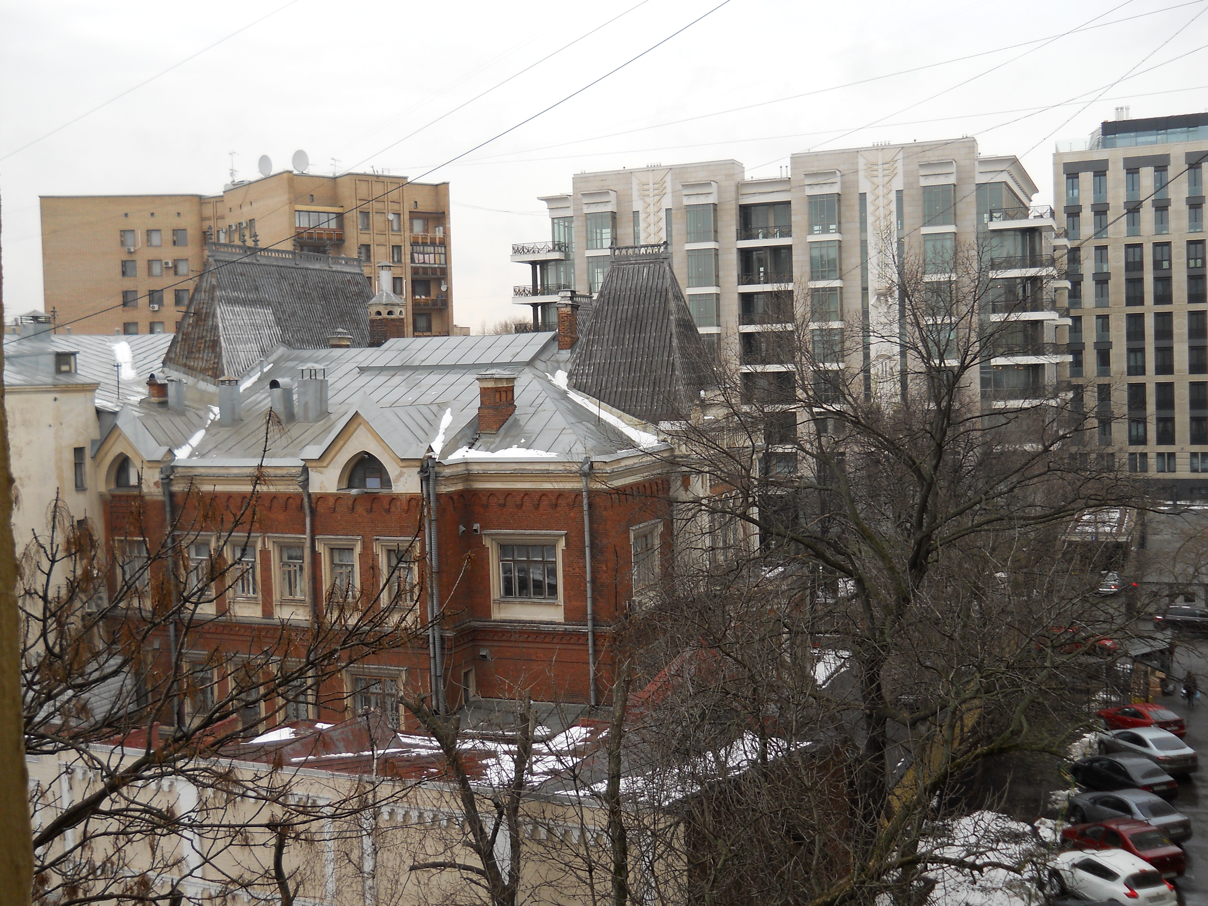 Granatny Lane 7, Moscow. Central House of Architects. South view.